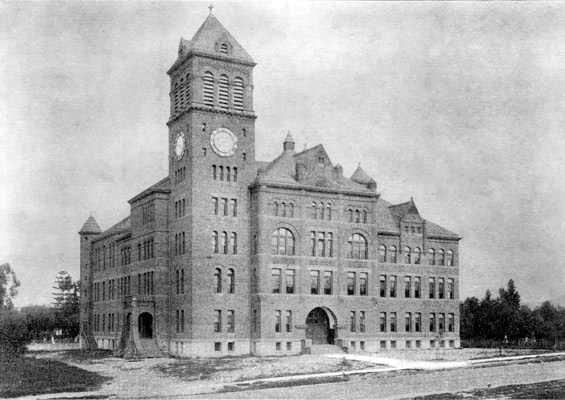 Los Angeles High School's second building and location on Fort Moore Hill in 1891. It was located on north Hill Street between California Boulevard (now the 101 Freeway) and Sunset Boulevard (now Caesar E Chavez Ave.) — in northwestern Downtown Los Angeles. It became the location for the Fort Moore Hill Pioneer Memorial and the headquarters of the Los Angeles Unified School District (which moved in 2000). From the the Los Angeles Public Library Photo Collection.